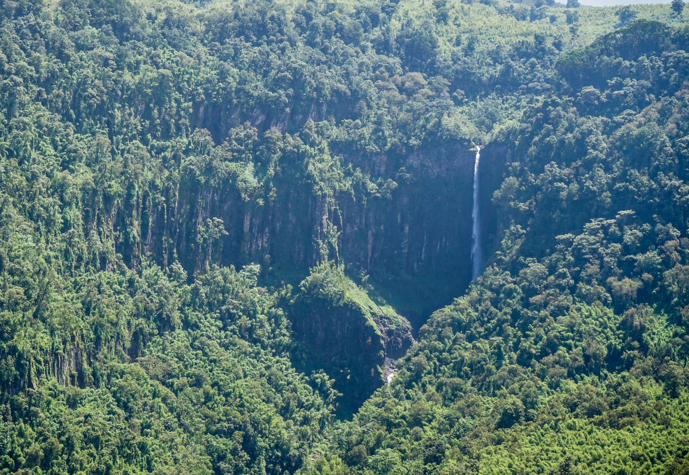 Gura Falls, Aberdare National Park, Kenya